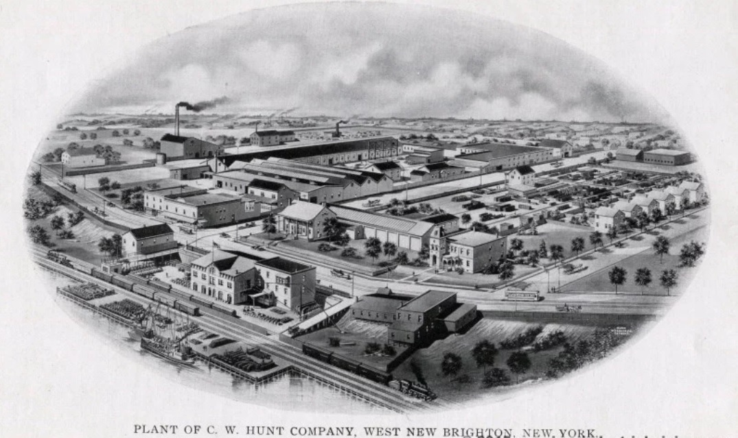 Plant of C. W. Hunt Company, West New Brighton, New York